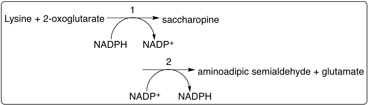 Referencing: Markovitz, P. J., Chuang, D. T., & Cox, R. P. (1984). Familial hyperlysinemias. Purification and characterization of the bifunctional aminoadipic semialdehyde synthase with lysine-ketoglutarate reductase and saccharopine dehydrogenase activities. Journal of Biological Chemistry, 259(19), 11643–11646.